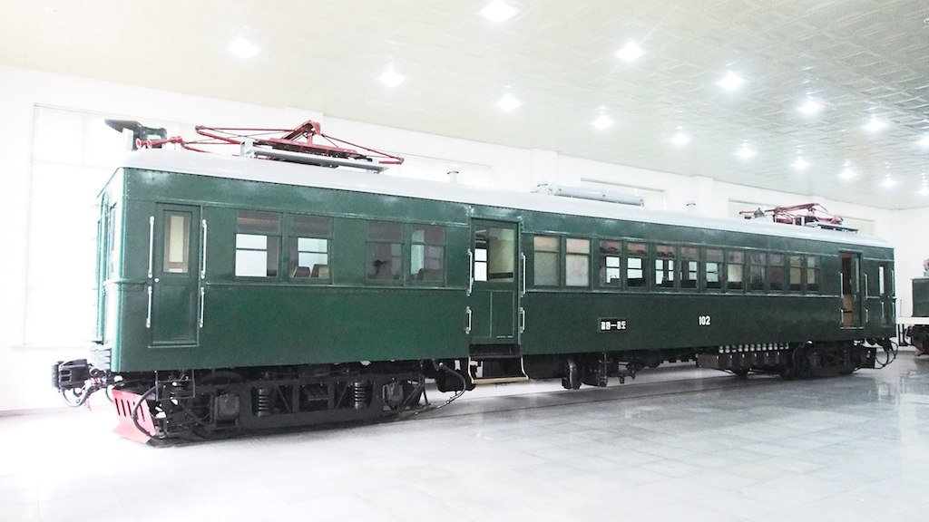 Mural. At the Railway Museum. Less a railway museum than one honoring President Kim Il-sung. I believe this is an EMU used by Kim Il-sung to tour the system.